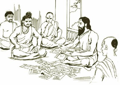 समर्थ